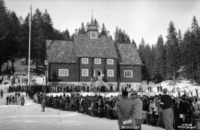 Skiing in front of Skimuseet in Oslo, Norway